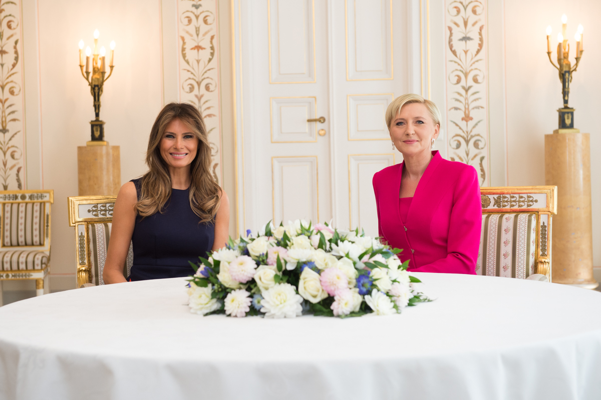 First Lady Melania Trump and First Lady Agata Kornhauser-Duda | July 6, 2017 (Official White House Photo by Andrea Hanks)